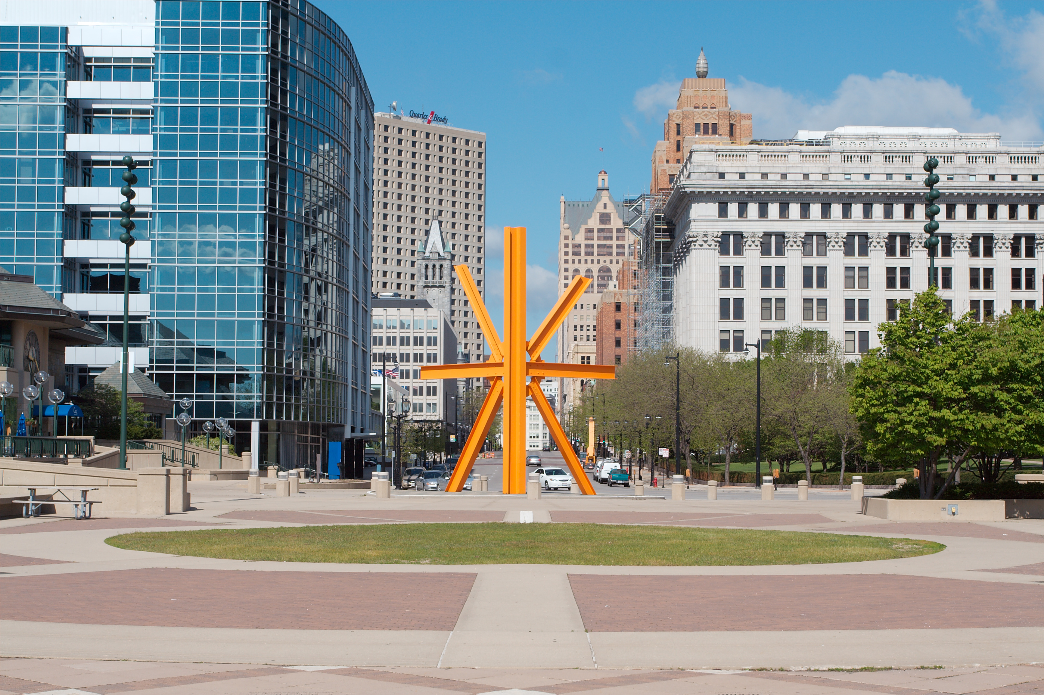 Milwaukee, Wisconsin